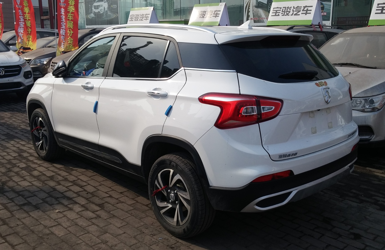 Baojun 510 photographed in Harbin, Heilongjiang province, China.